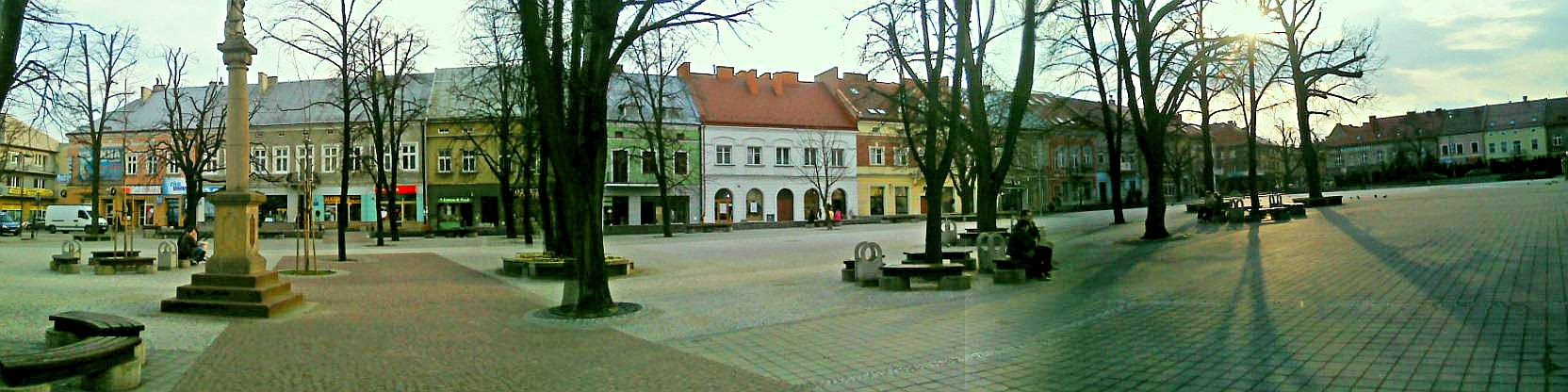 City Place in Jaslo